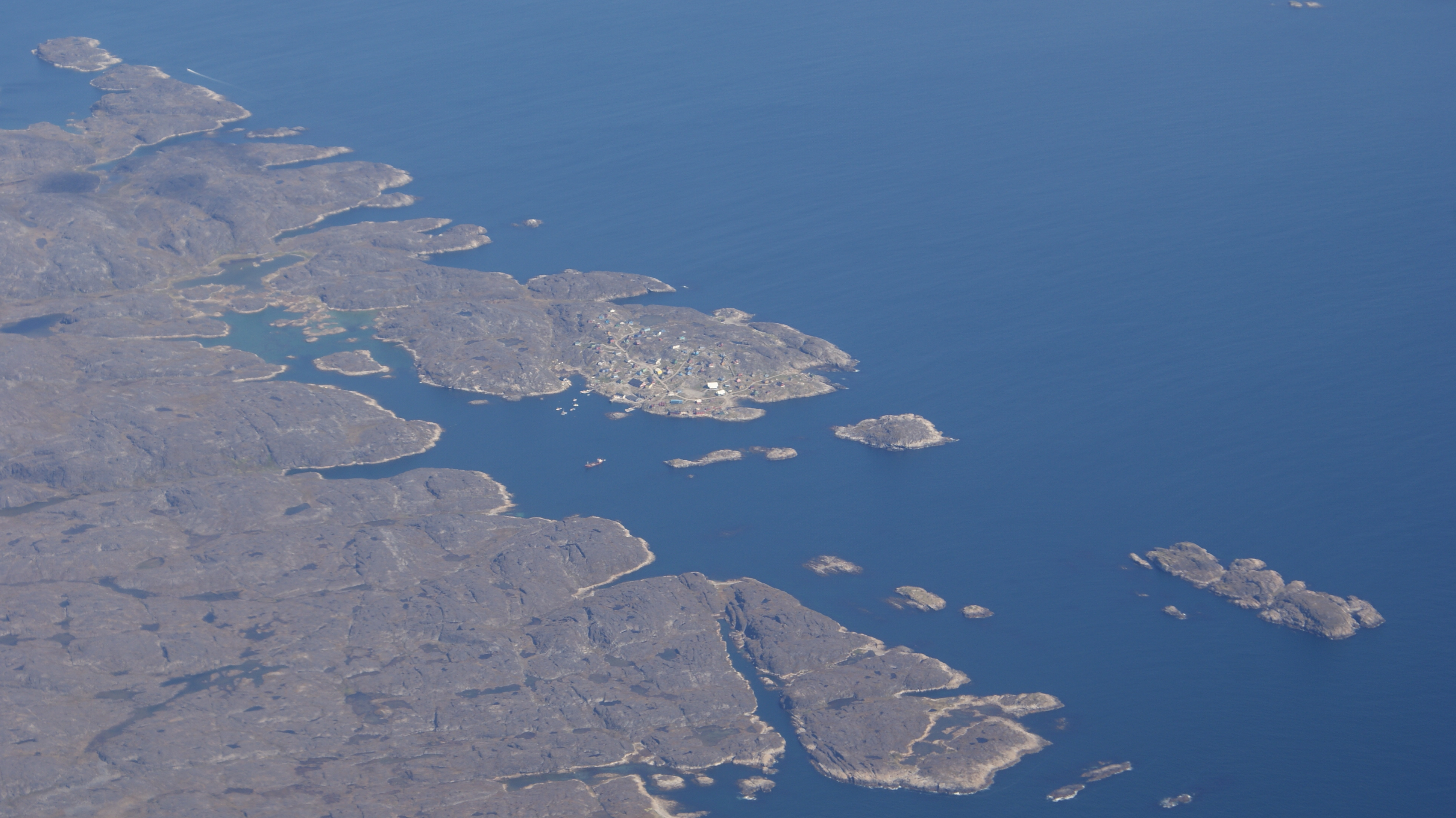 Aerial view of Atammik, the southernmost village in the Qeqqata Municipality, in western Greenland. Photographed from the Air Greenland de Havilland Canada Dash-7 "Sululik" during the Sisimiut-Nuuk flight.